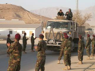 Afghan commandos returning from Operation Commando Fury on November 15, 2007